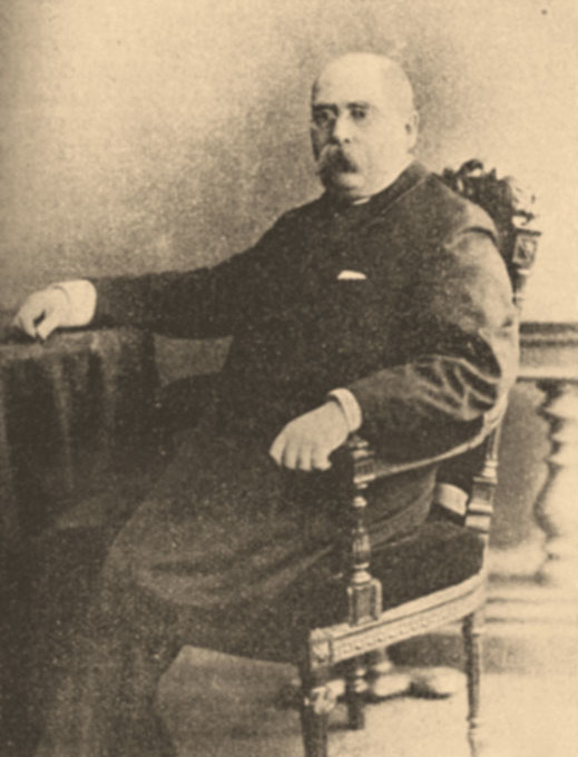 Illustration from Brockhaus and Efron Jewish Encyclopedia (1906—1913)